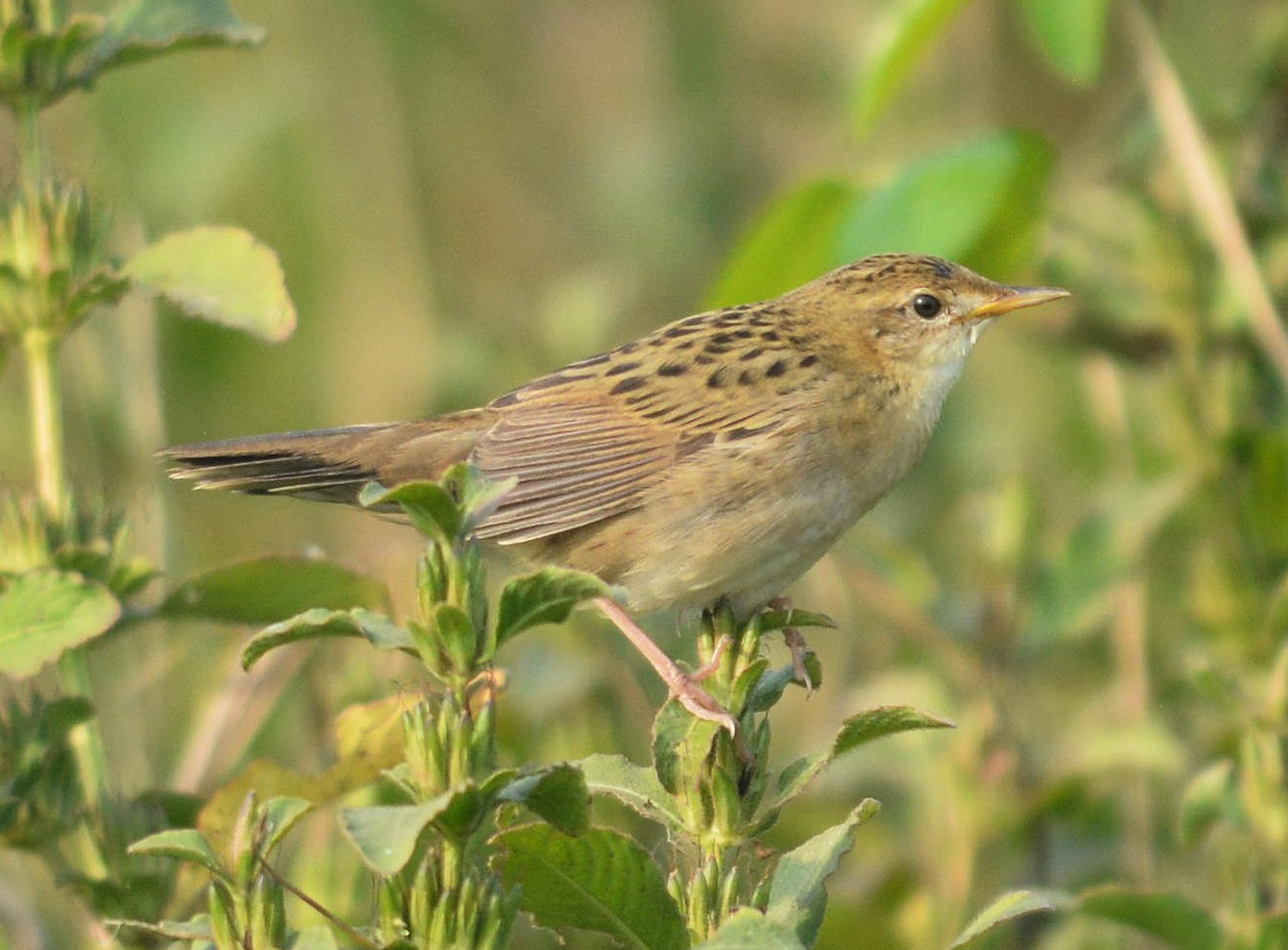 Grasshopper Warbler Locustella naevia. Photo taken at Dombivli, distt. Thane, Maharashtra, India.